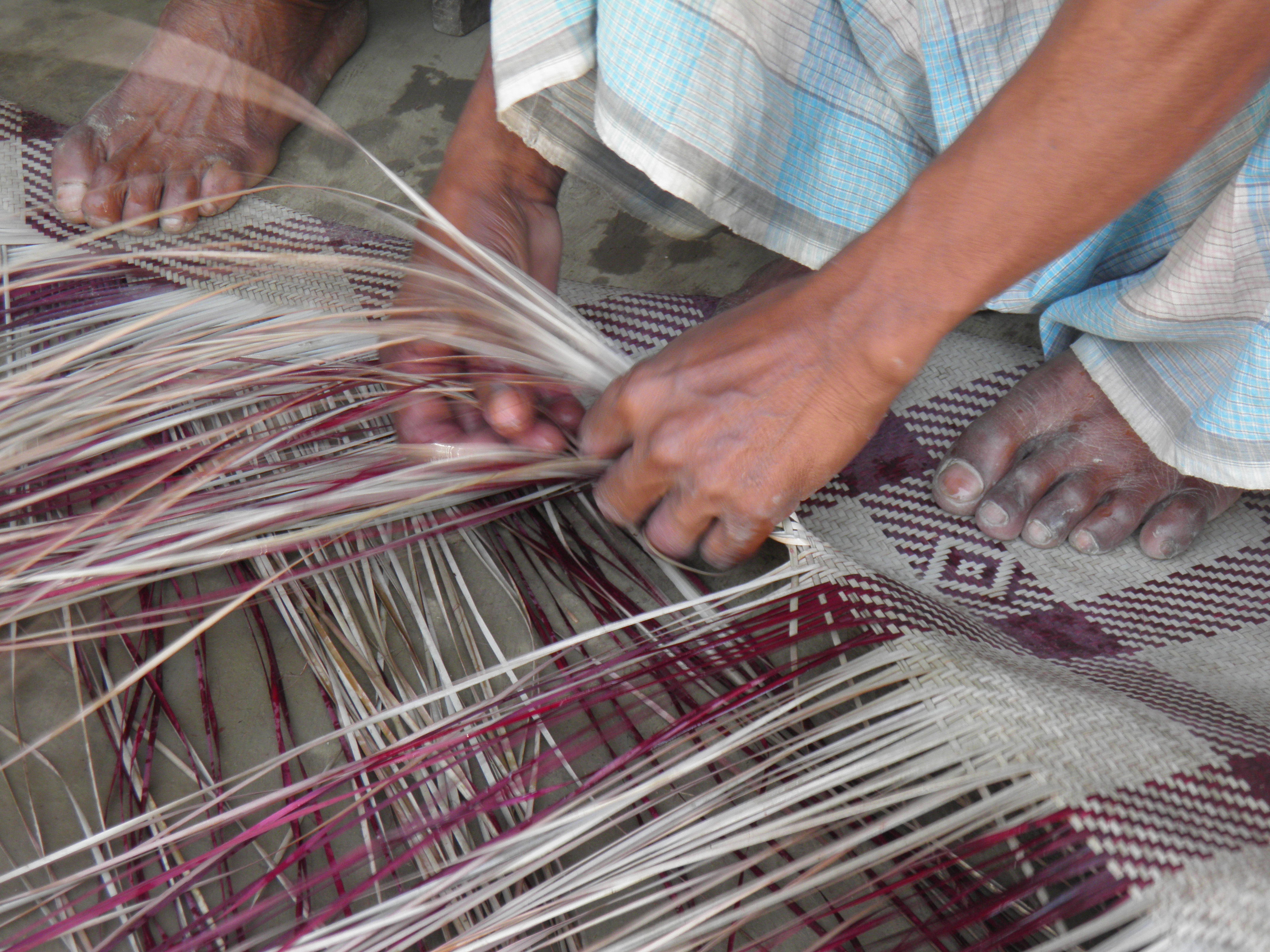 Weaving of Sheetal Pati (Cane mat) at home, Sunamjanj, Bangladesh, 2014